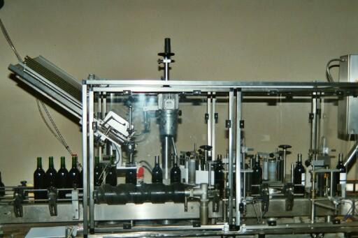 Equipment for adding capsules and labels to already filled wine bottles